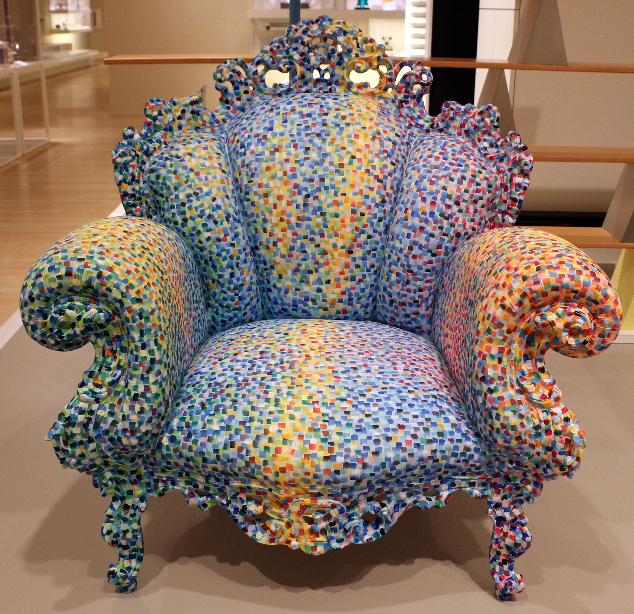 Furniture in the Indianapolis Museum of Art